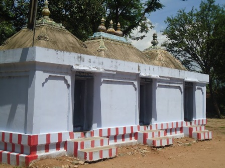 மாசி பெரியண்ணசாமி கோயிலில் உள்ள உபதெய்வ சந்நிதிகள்